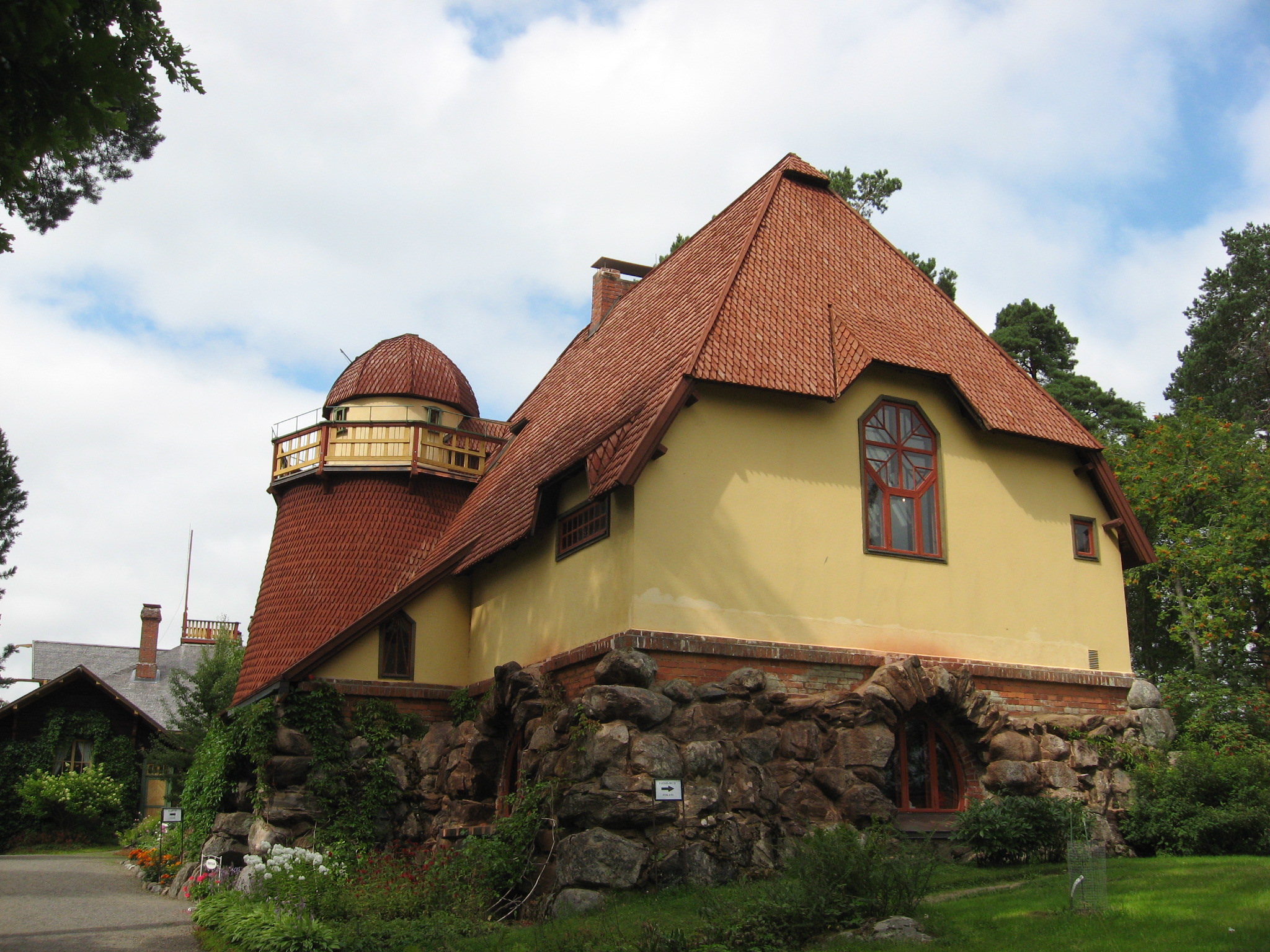 Visavuori, the studio of Emil Wikström